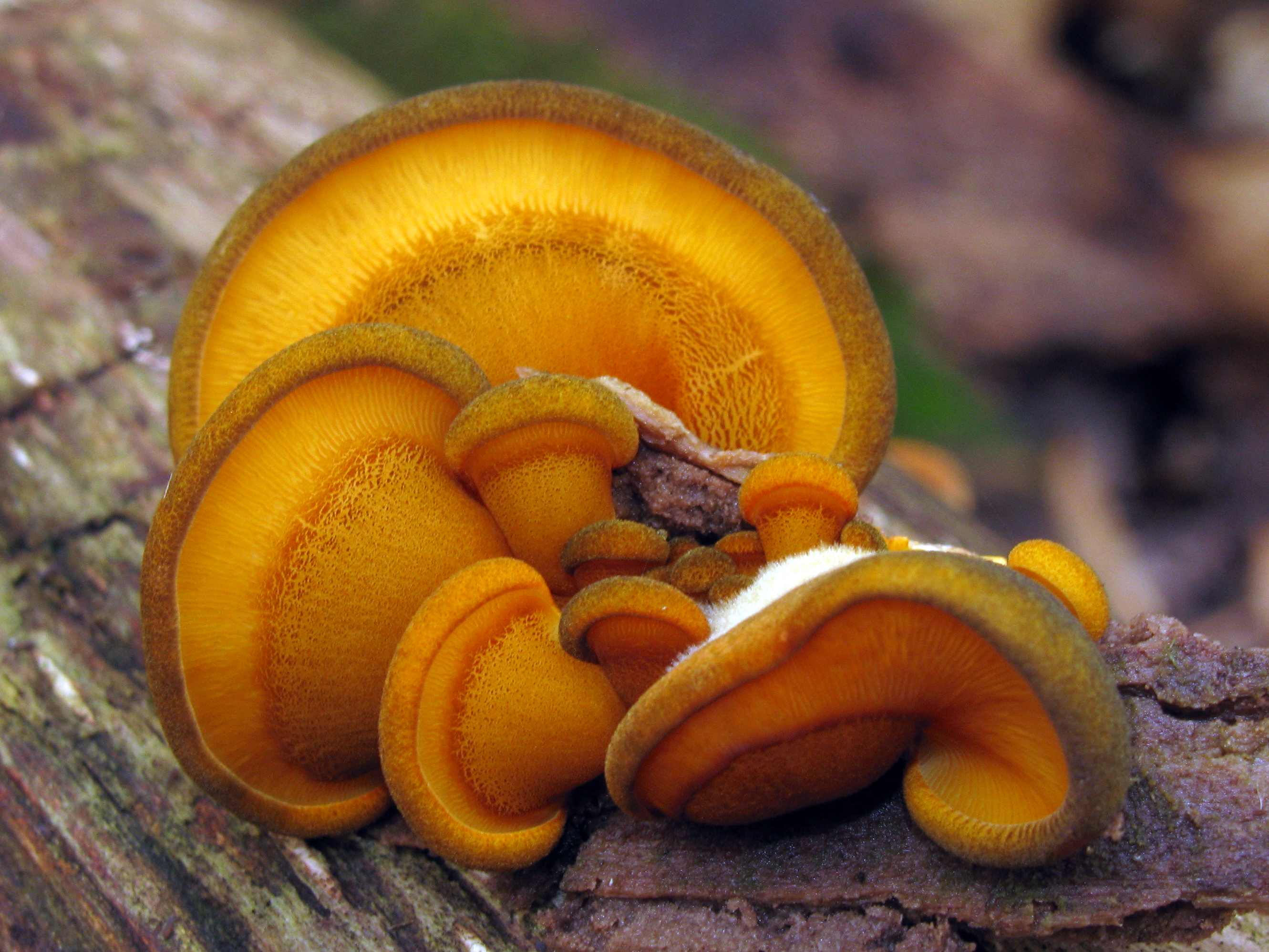 Sarcomyxa serotina (Pers.) P. Karst. Image location: Tomlinson Run State Park, West Virginia, USA Recognized by sight For more information about this, see the observation page at Mushroom Observer.